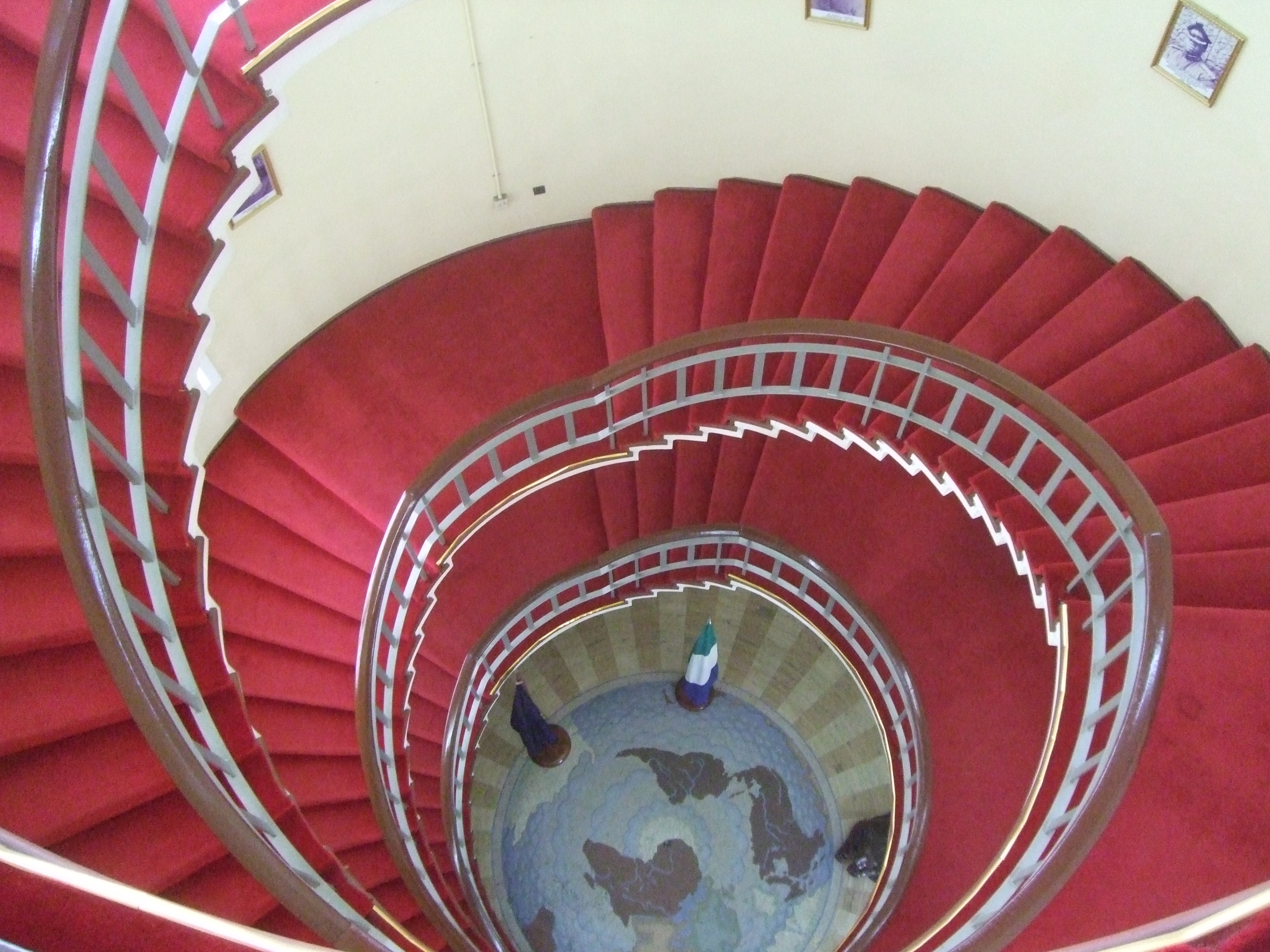 The State House, government building in Freetown, Sierra Leone. Spiral stairs